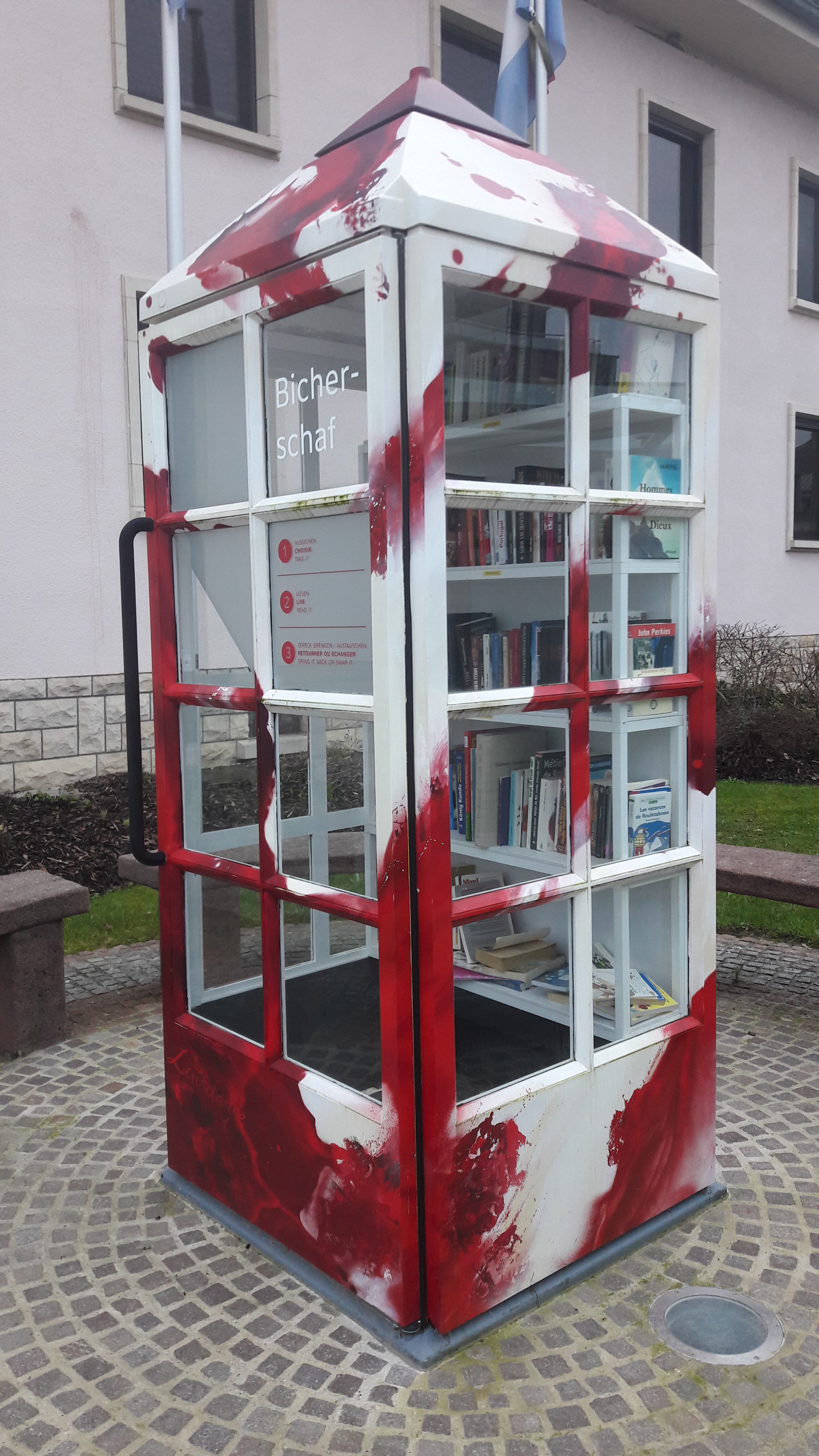 a telephone booth transformed into a free second hand book store. The booth was pimped up by Daniel Mac Lloyd.